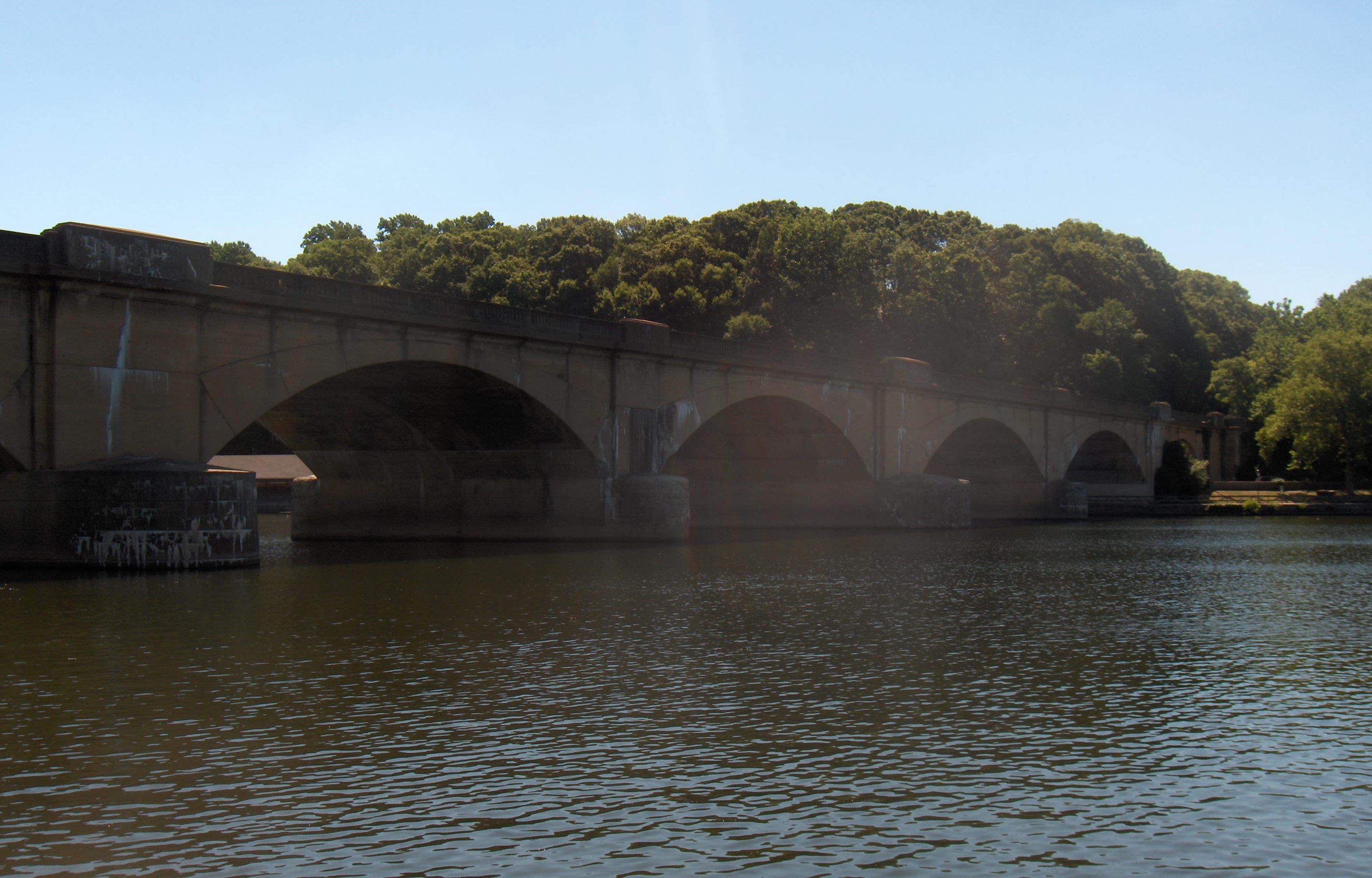 Columbia Railroad Bridge, also known as Columbia Bridge, is a 1920 concrete arch bridge in Philadelphia, Pennsylvania rail lines over the Schuylkill River. It is located in Fairmount Park. View from Martin Luther King, Jr. Drive.